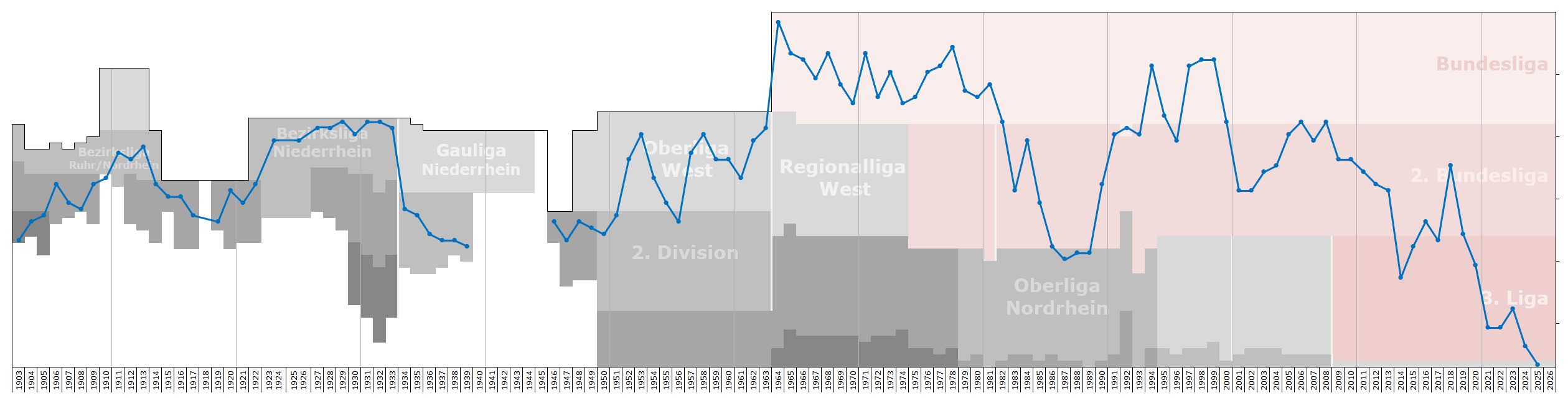 Chart of end-season table positions of MSV Duisburg in the football league system of Germany. Data source: RSSSF, wikipedia, f-archiv.de, fussball.de